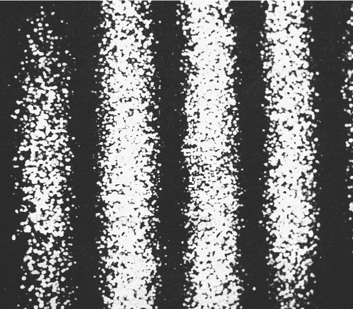 Photograph of ESPI fringe